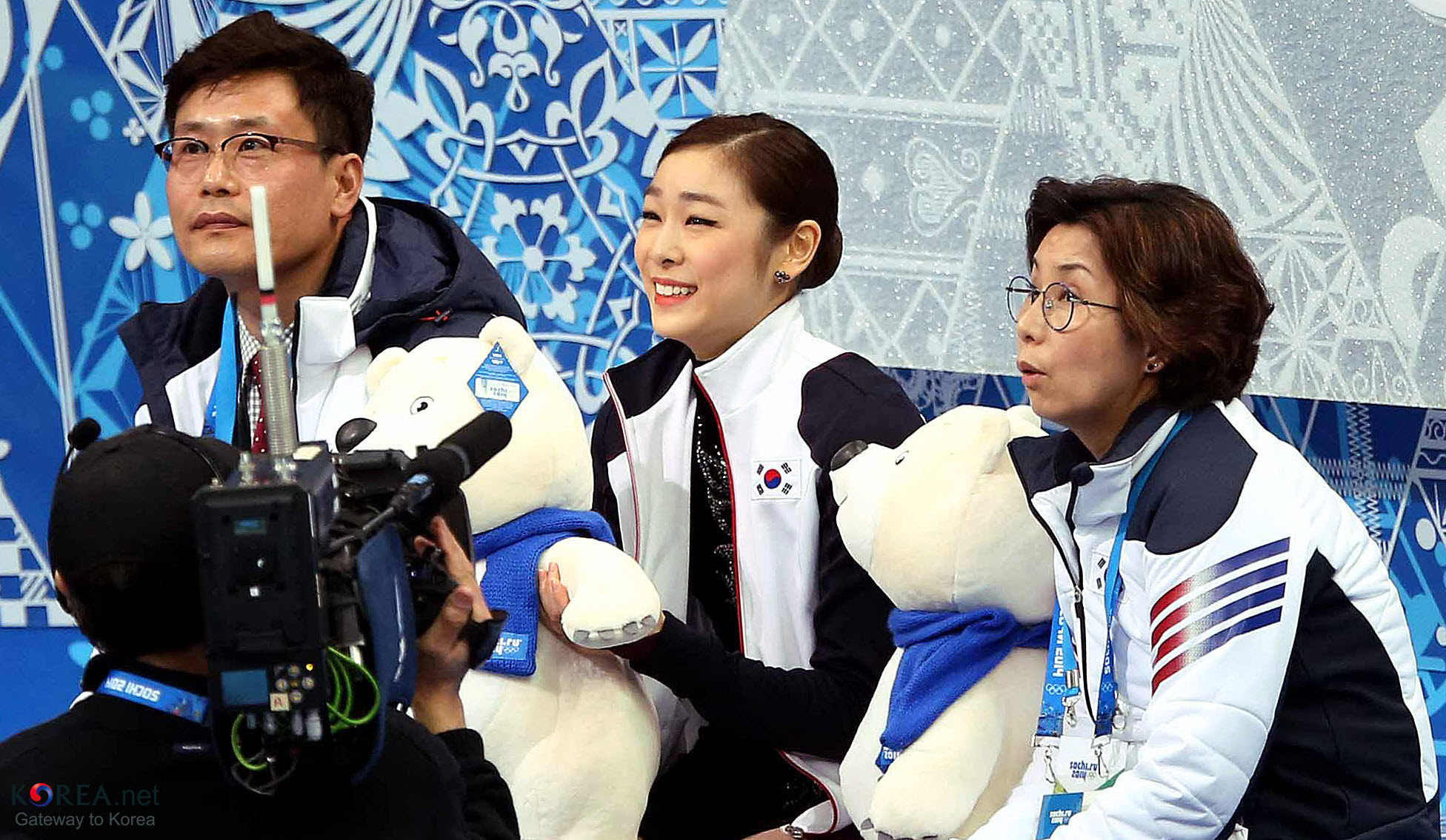 Kim Yuna, 2014 Sochi Winter Olympic Games Figure Skating Ladies Free Skating. February 20, 2014 Iceberg Skating Palace, Sochi, Russia Photo: The Korean Olympic Committee Related Articles -English- Farewell to the queen: Kim gives it her all in her final performance ‘Figure Skating Queen’ Kim Yuna aims at second Olympics gold 'Enjoy your time in Sochi': President Olympics team heads to Sochi -Deutsch- Die „Königin des Eiskunstlaufs” Kim Yuna kämpft um ihr zweites olympisches Gold -中文- 花滑女王金妍儿自由滑比赛值得期待 -日本語- キム・ヨナ、最後の舞台ですべて出し切る 「フィギュアクイーン」キム・ヨナ、あとはフリーだけ 김연아, 2014 소치 동계올림픽 피겨 스케이팅 여자 프리 스케이팅 2014-02-20 러시아, 소치. 아이스버그 스케이팅 팰리스 사진: 대한체육회 코리아넷 기사 김연아, 마지막 무대에서 모든 것을 보여주다 ‘피겨 여왕’ 김연아 프리(Free)만 남았다